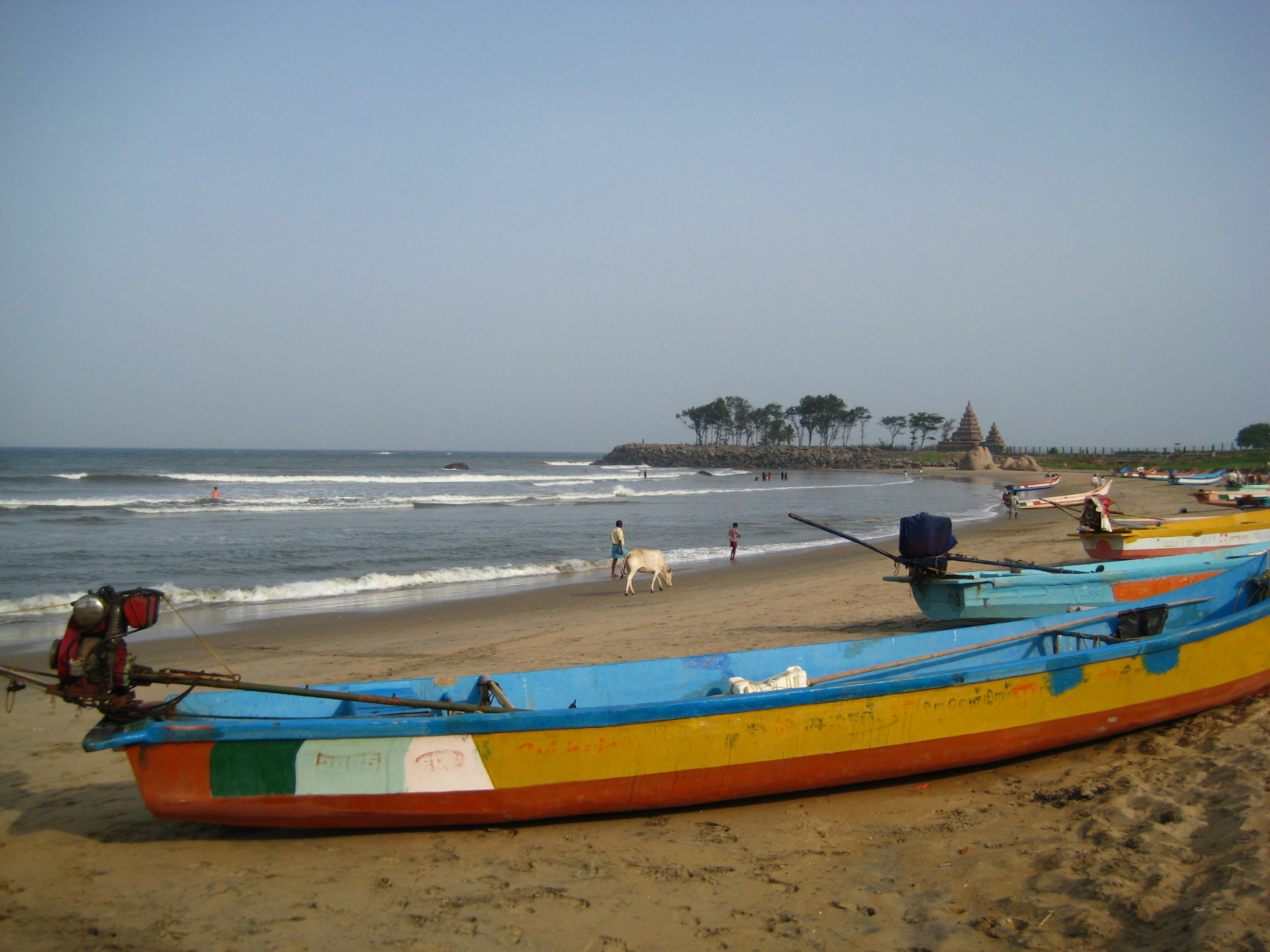 Pancha rathas at Mamallapuram, Tamil Nadu, India